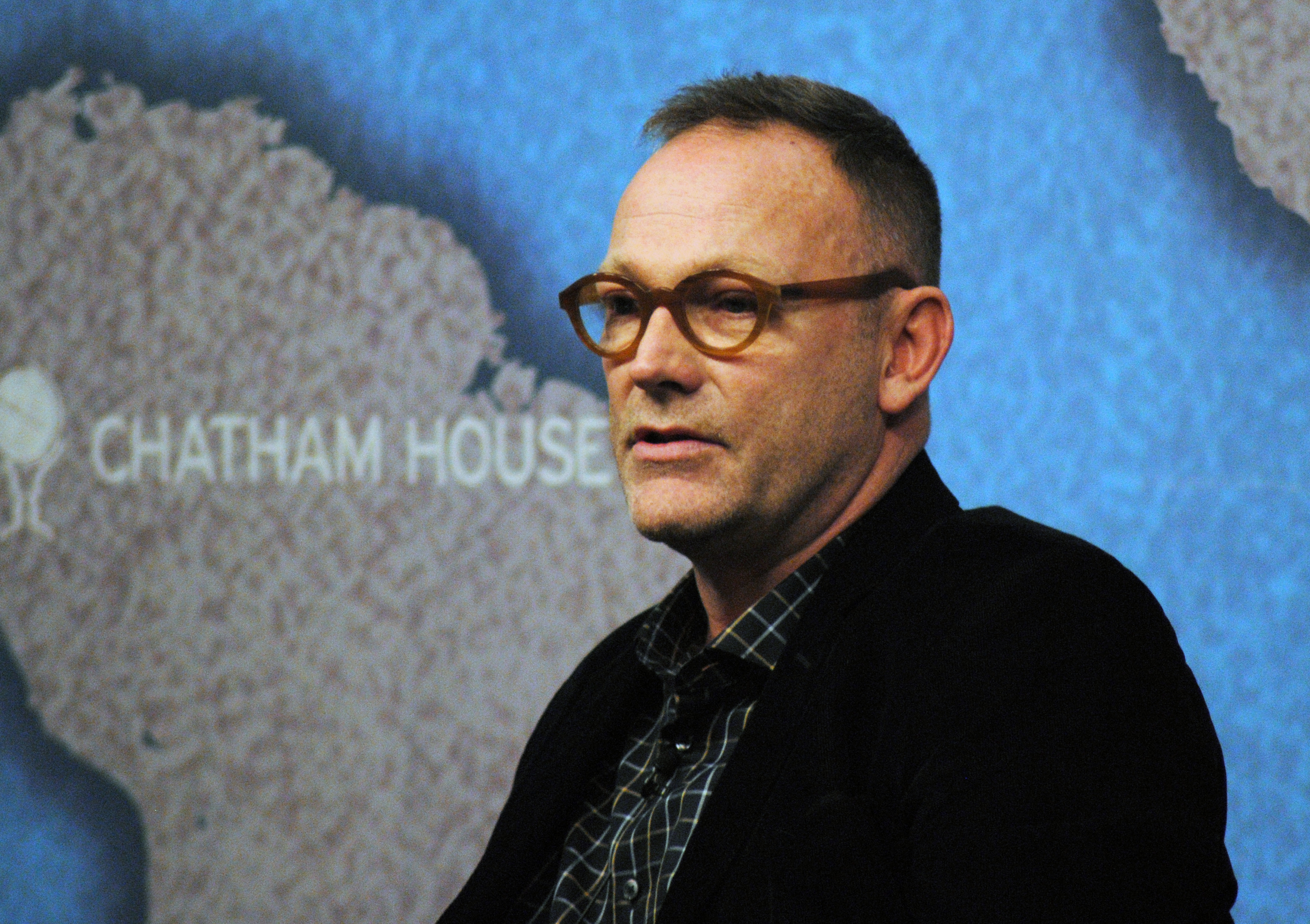 Targeted Killings and Drones: A Global Battlefield, 28 November 2013 cht.hm/1bZehjo